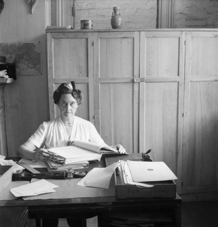 At the British Embassy, Chungking Lady Seymour, wife of the British Ambassador, works in the registry of the British Embassy, Chungking